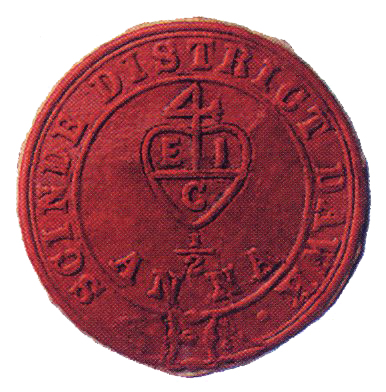 Image of a Scinde Dawk from the 1852